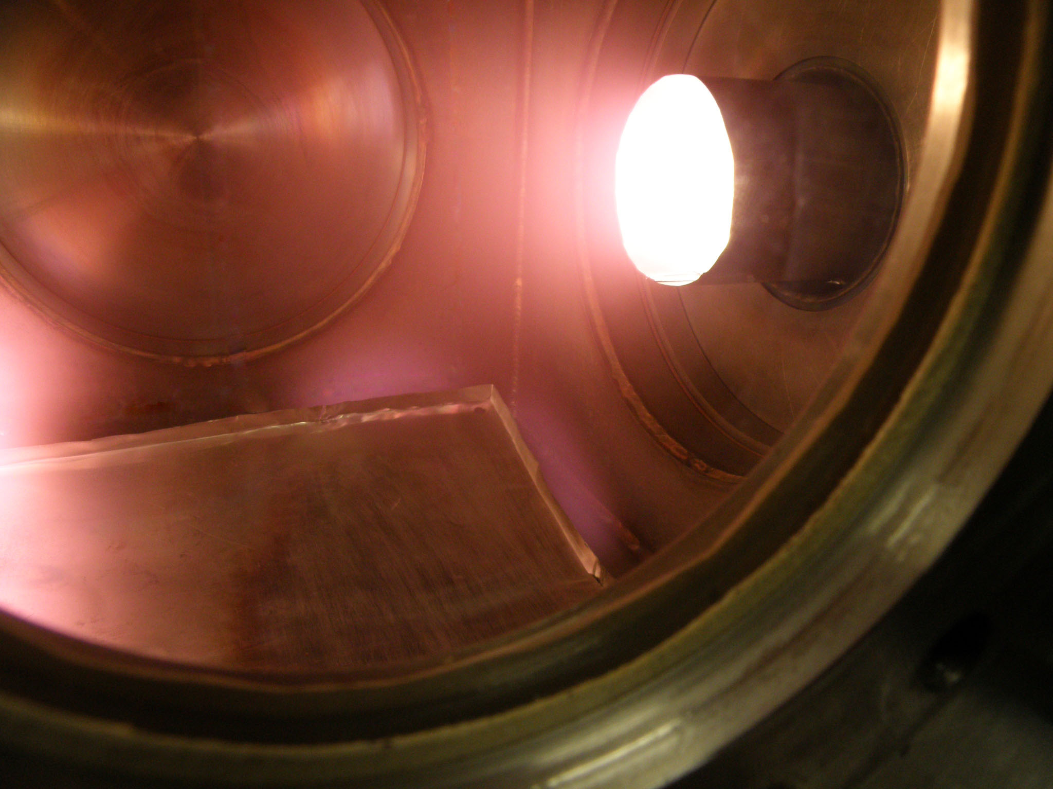 Arc discharge with hot cathode